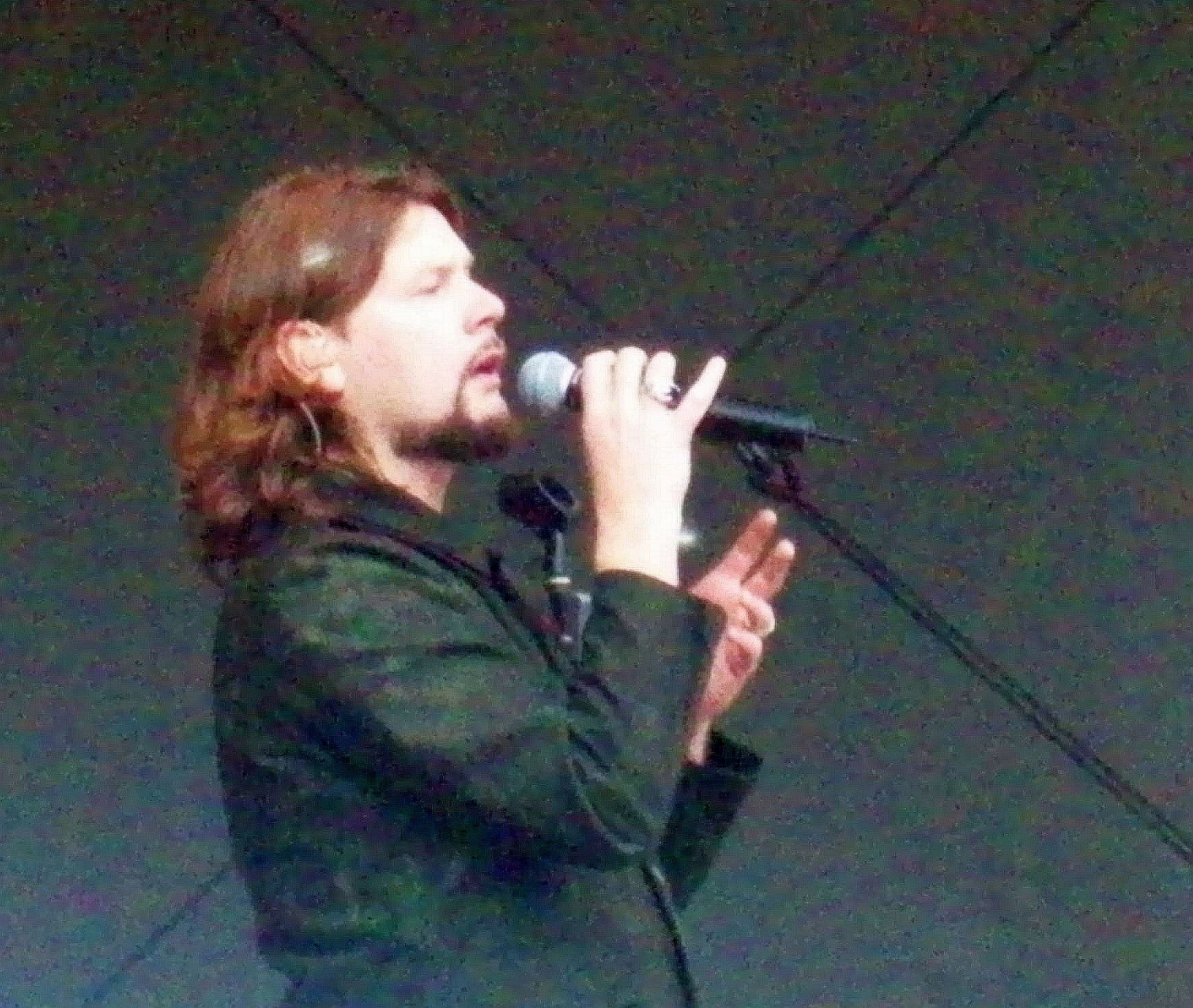 Rea Garvey during a concert in Düsseldorf, Germany (DTM-Presentation)